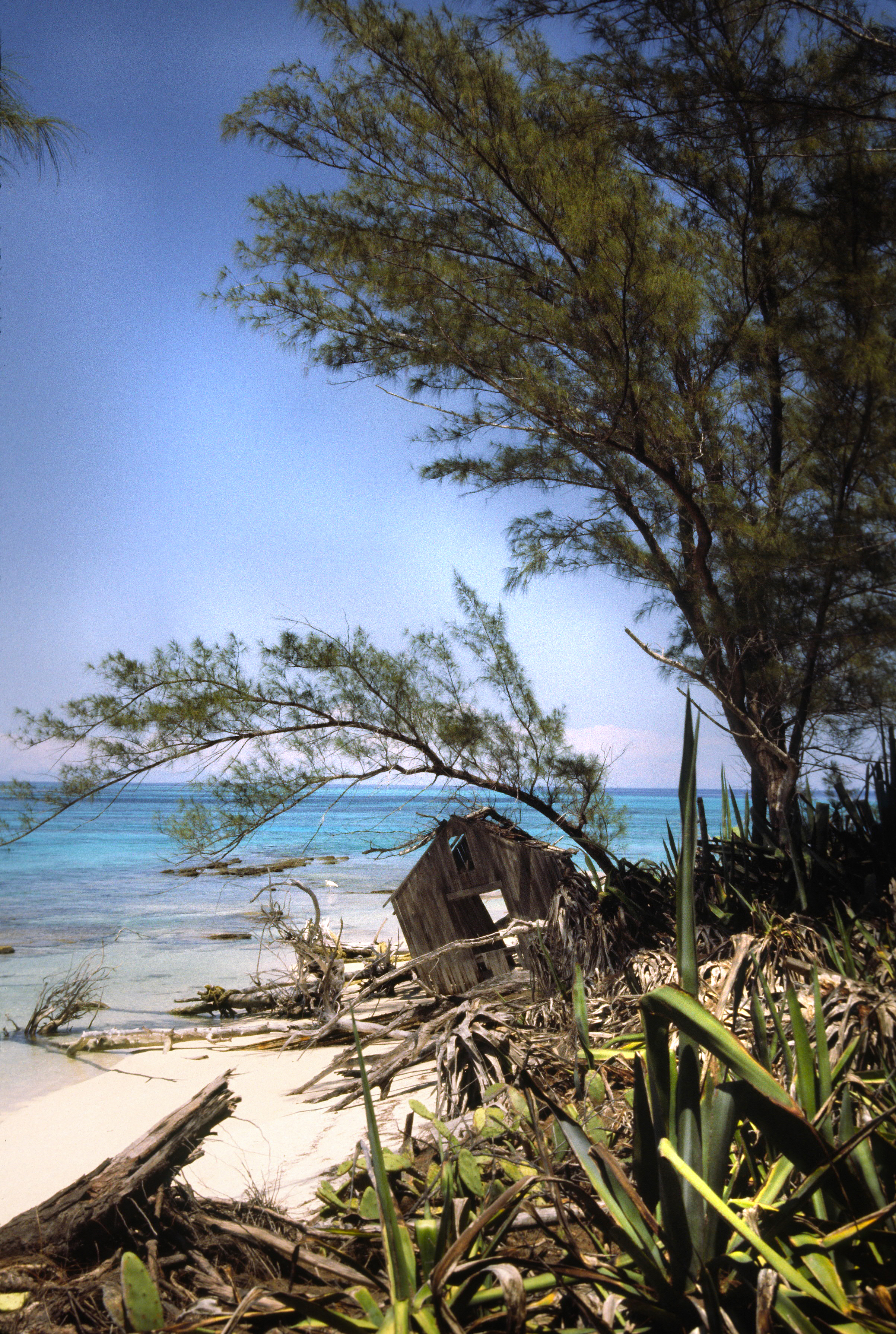 DRY TORTUGAS - May 2-5, 2014 & other Florida stuff